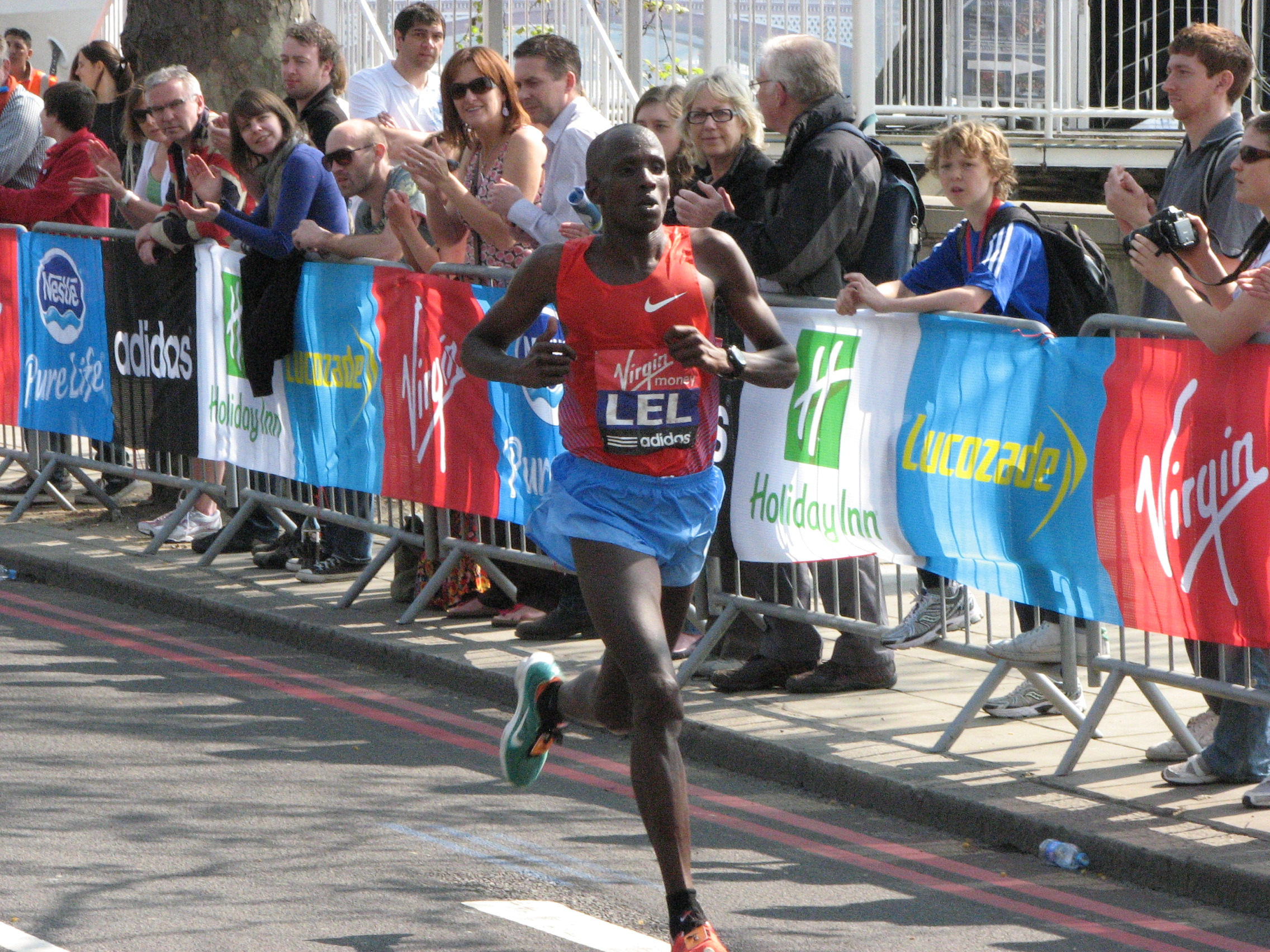 Martin Lel came second in 2:05:45, thirty seconds off his PB. Virgin London Marathon, 17 April 2011. Taken from 24 and a half miles, at the (western) junction of Victoria Embankment and Temple Place, very close to the Walkabout.